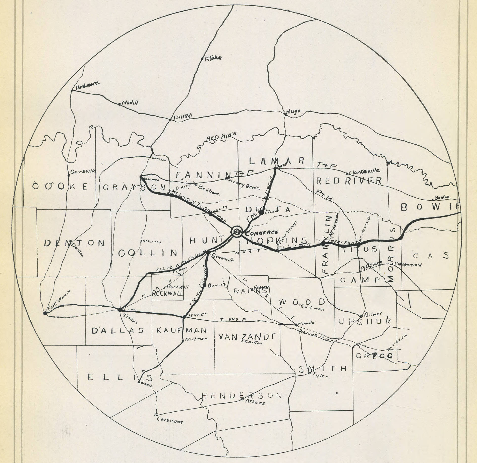 A Commerce, Texas map featured in East Texas State Normal College's 1920 Locust yearbook.